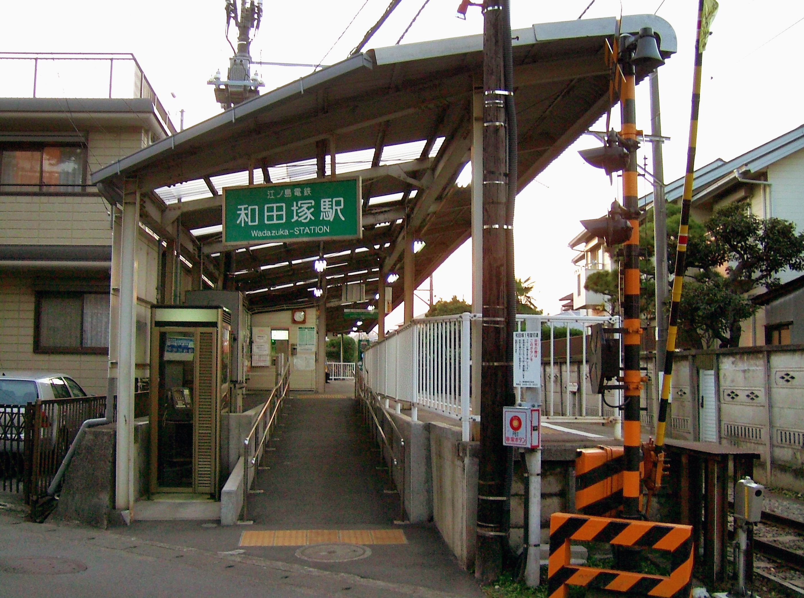 The entrance to Wadazuka Station on the Enoden Line in Kamakura city, Kanagawa prefecture, Japan